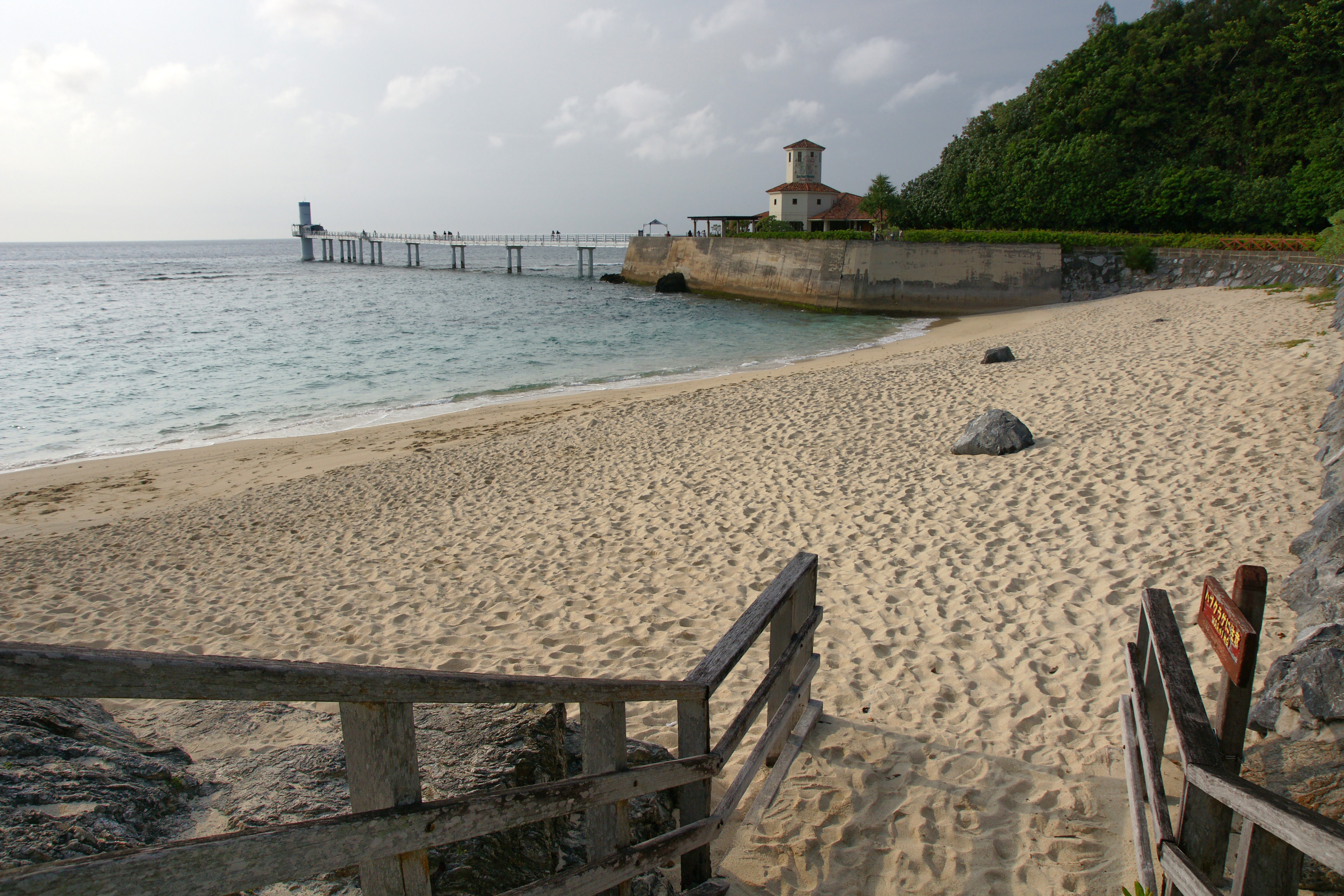 Busena Marine Park, Nago, Okinawa prefecture, Japan